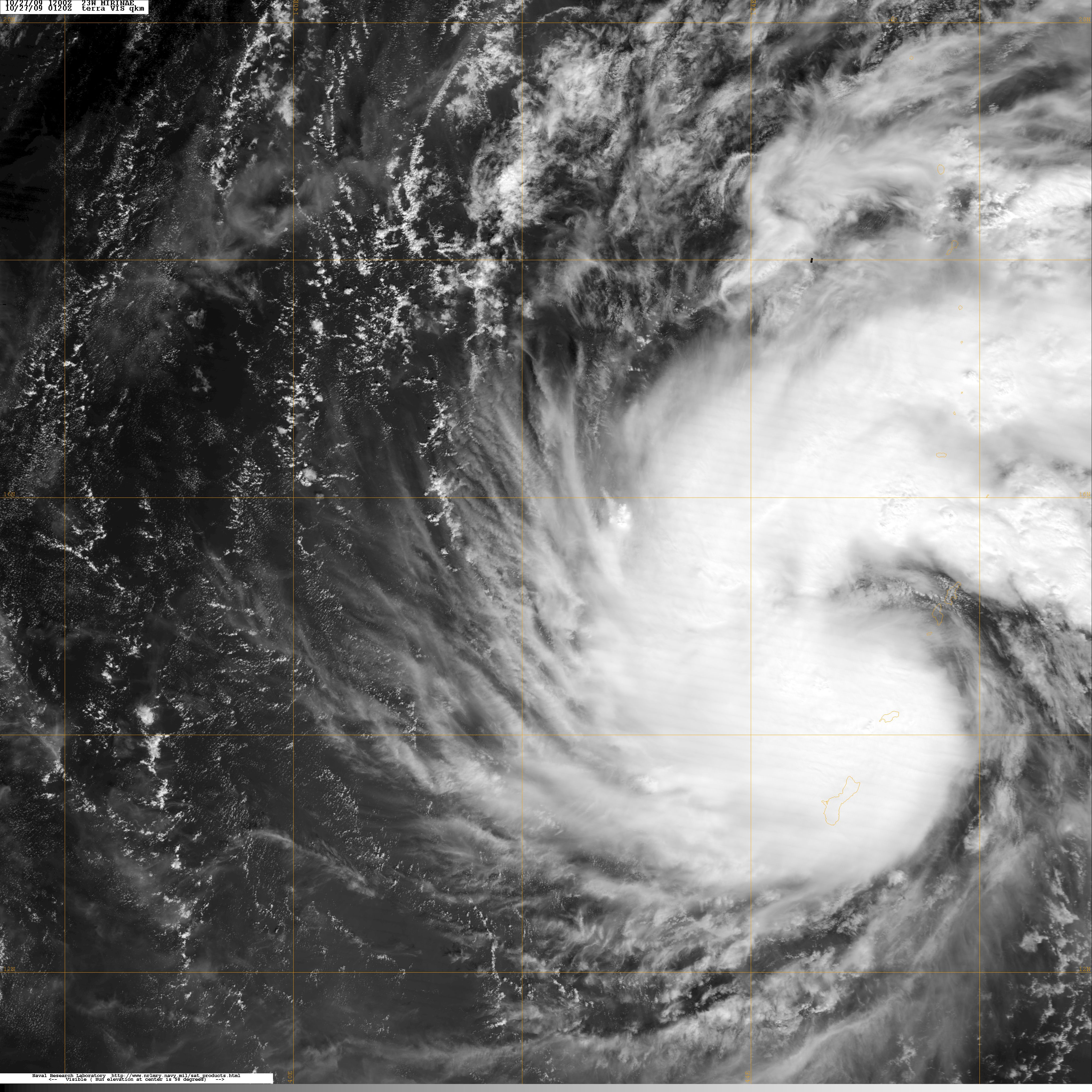 Tropical Storm Mirinae on Otober 27, 2009